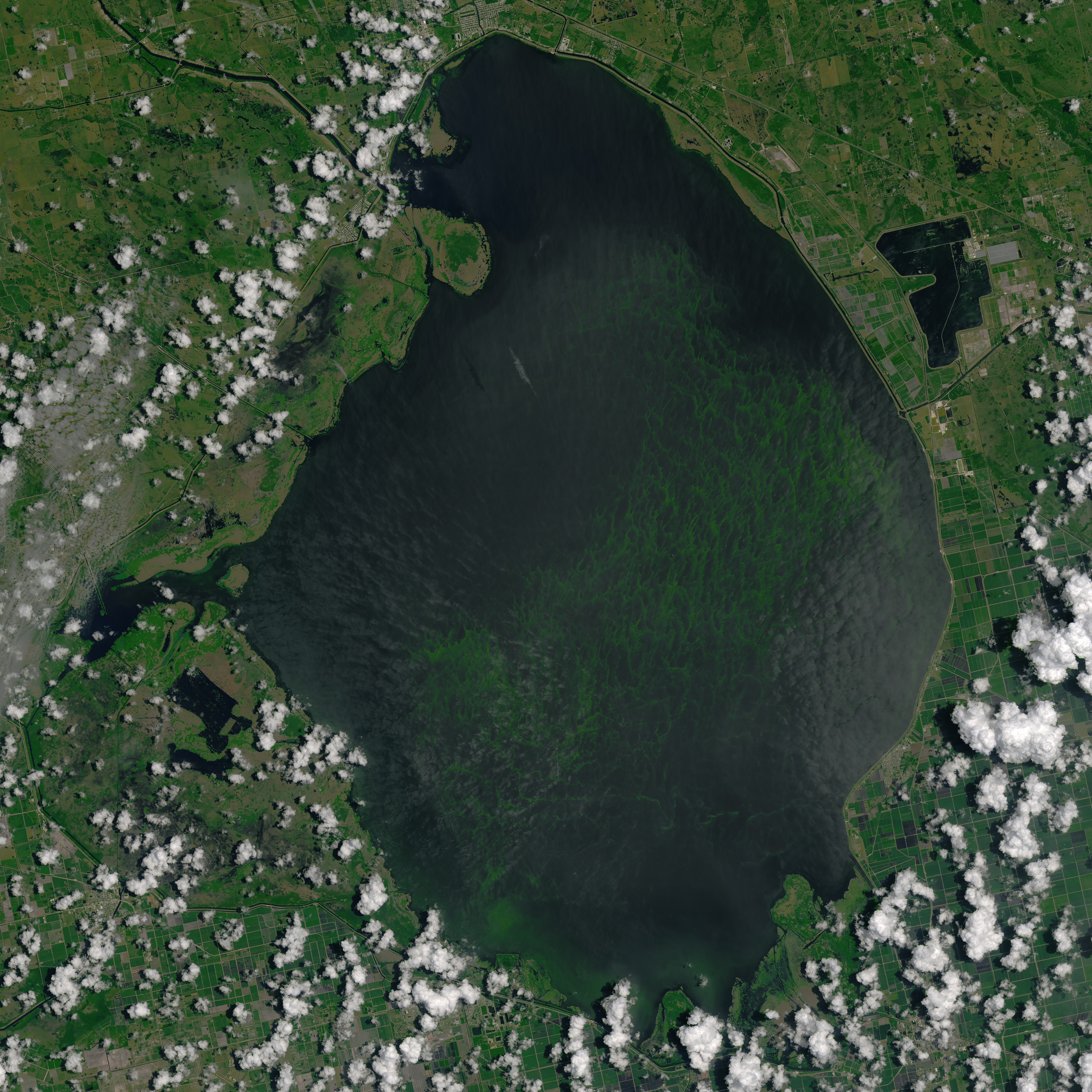 The blue-green algae bloom is visible in this image of Lake Okeechobee, acquired on July 2, 2016, by the Operational Land Imager (OLI) on the Landsat 8 satellite. The natural-color image combines red light, green light, and coastal aerosol (blue) light (bands 4, 3 and 1).